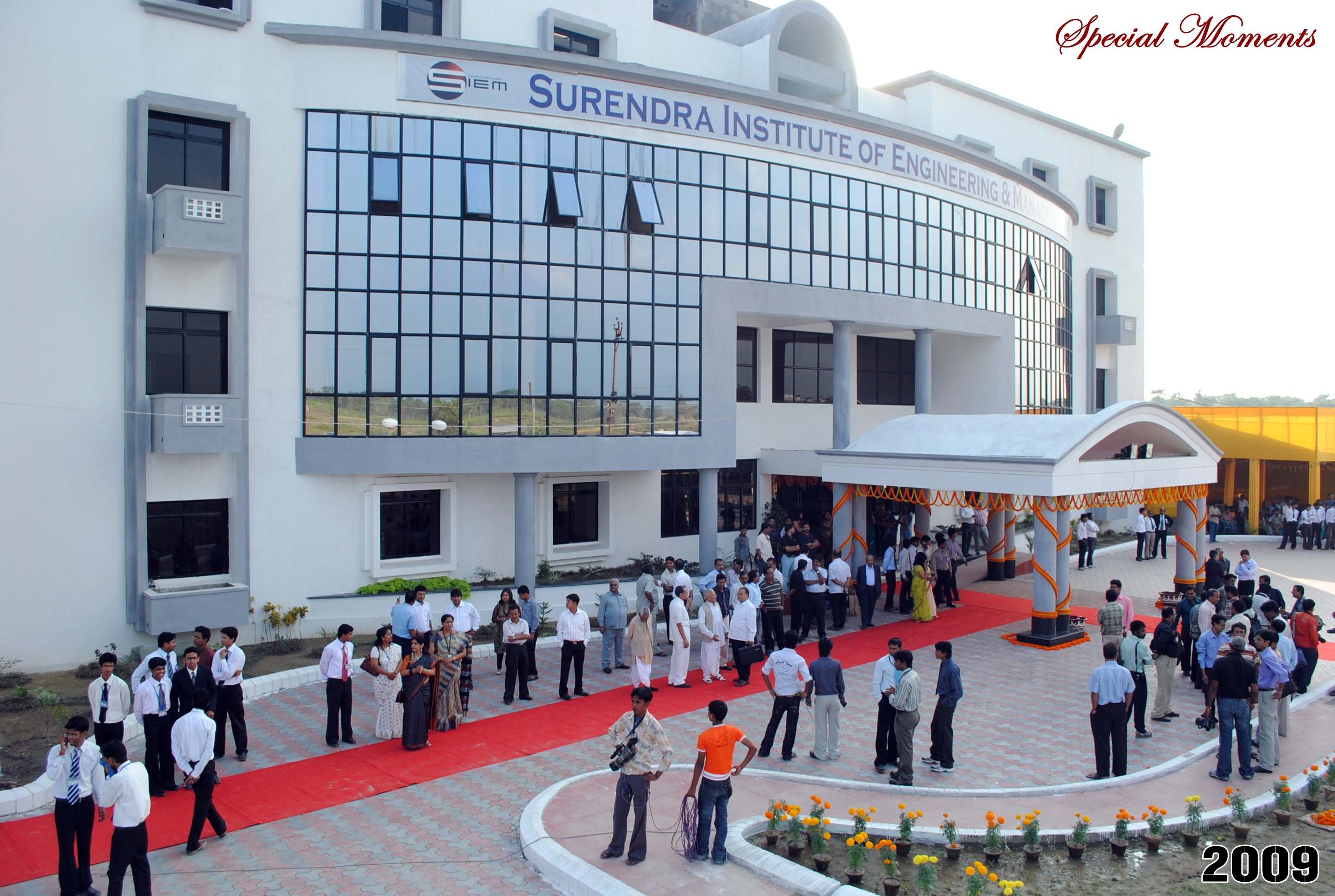 Premier Engineering College in West Bengal, India